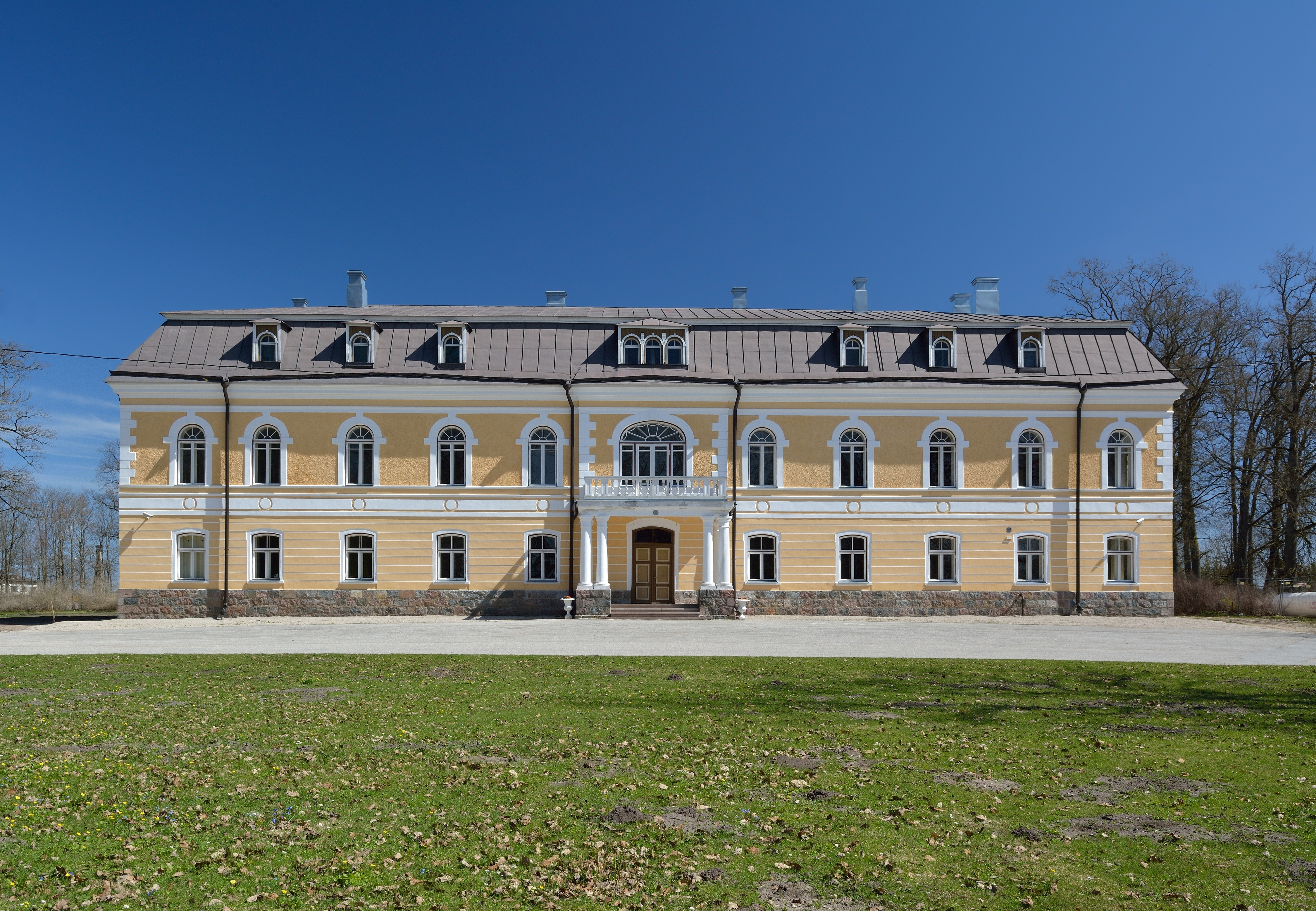 Kehtna manor main building